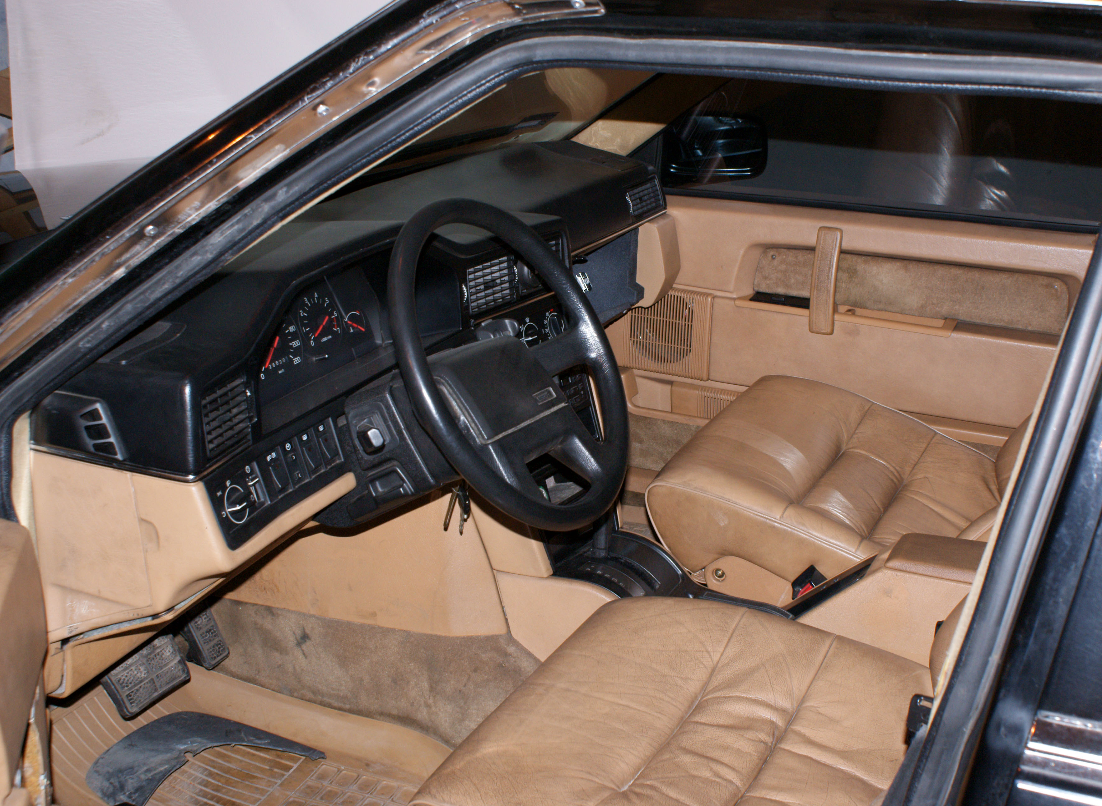 Interior of bullet-proof Volvo 760 GLE. Bought in 1989 for president Wojciech Jaruzelski, was also used by Lech Wałęsa.